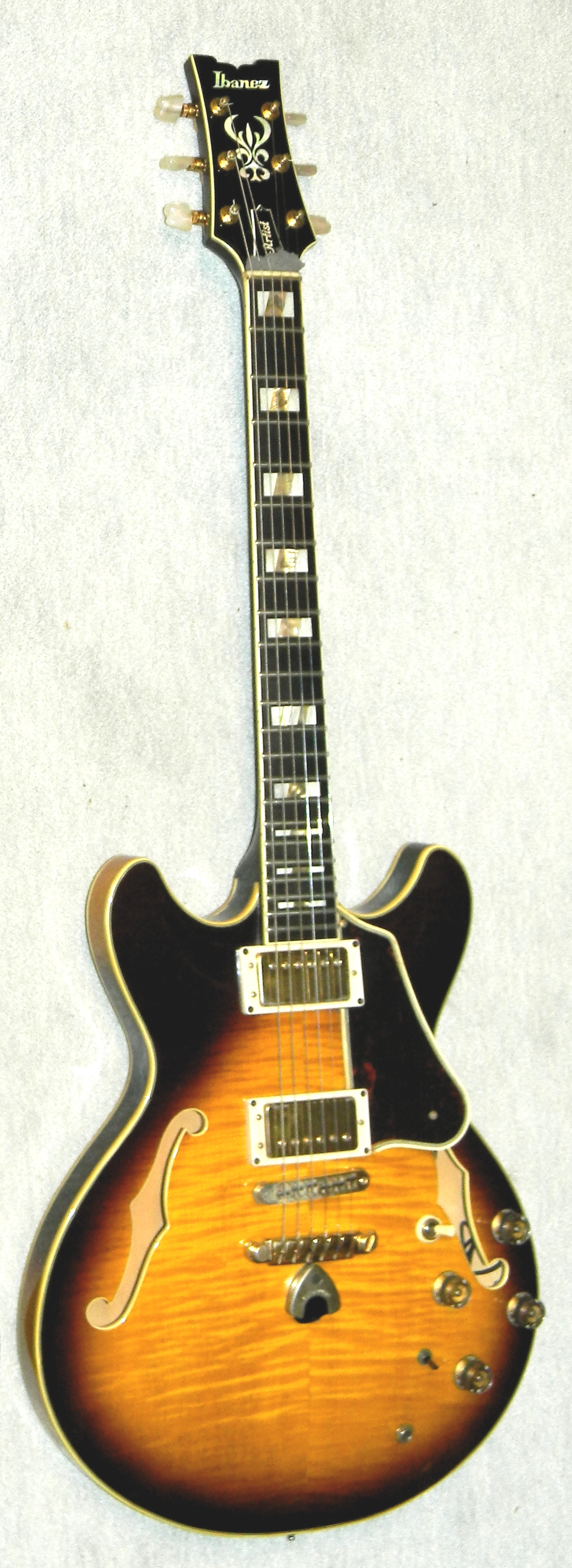 Ibanez Artist AS 200 AV semi hollowbody guitar, built April 1980 in Japan